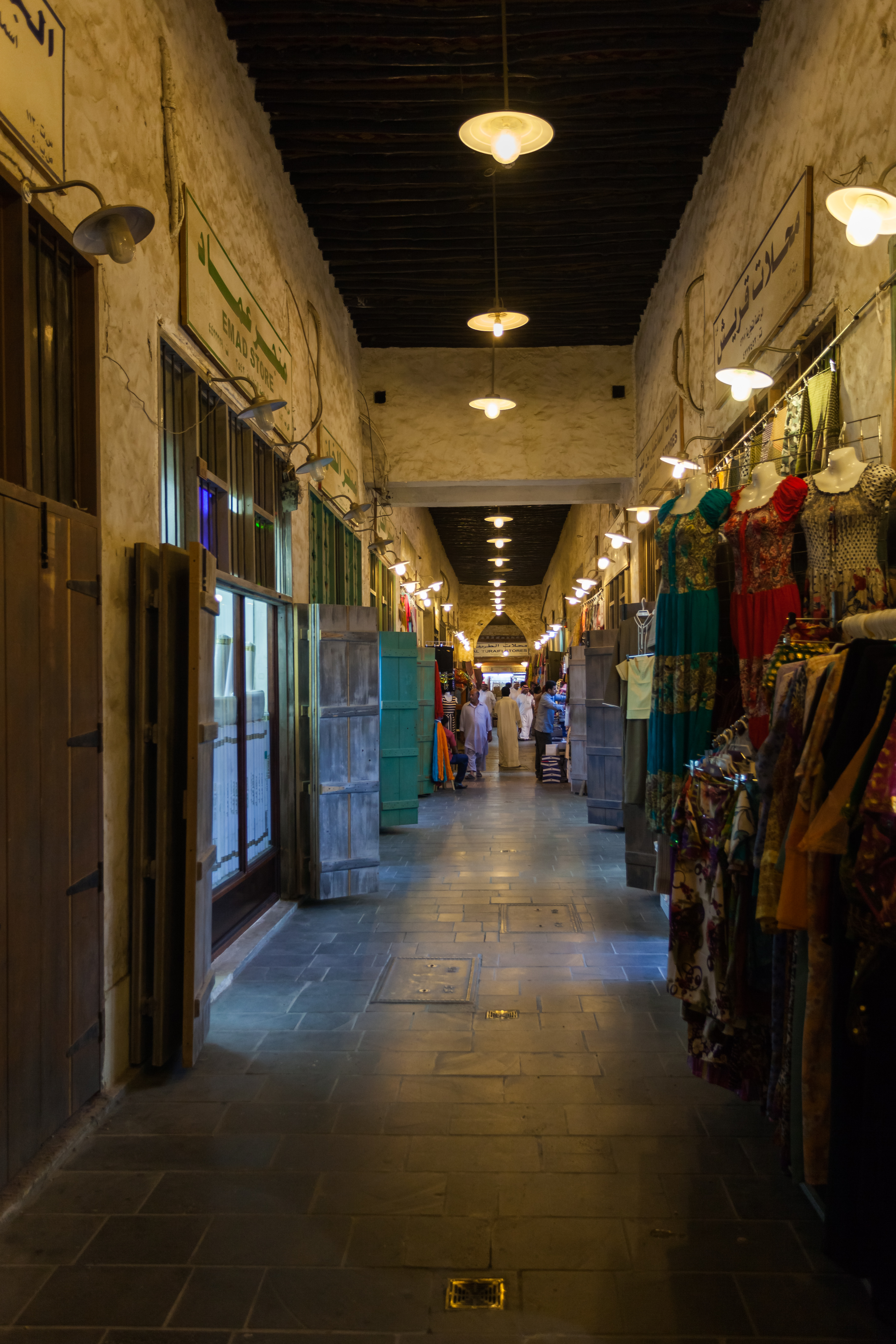 Souq Waqif, Doha, Qatar